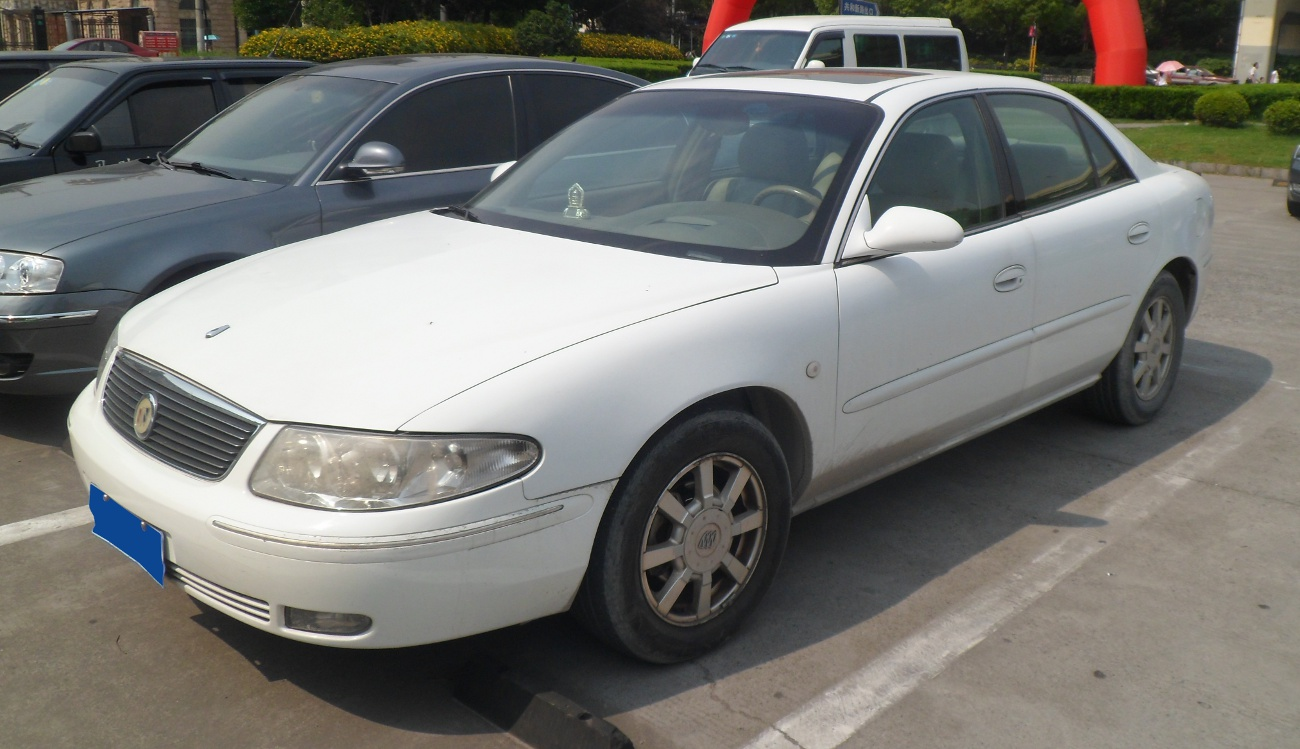 Buick Regal CN photographed in Shanghai, China.